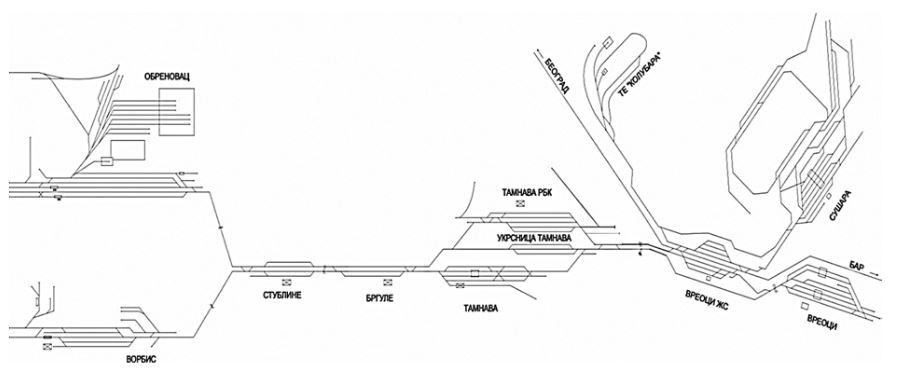 Diagram of TPP Nikola Tesla railway network. Srpskohrvatski / српскохрватски: Dijagram železničke mreže TE Nikola Tesla.